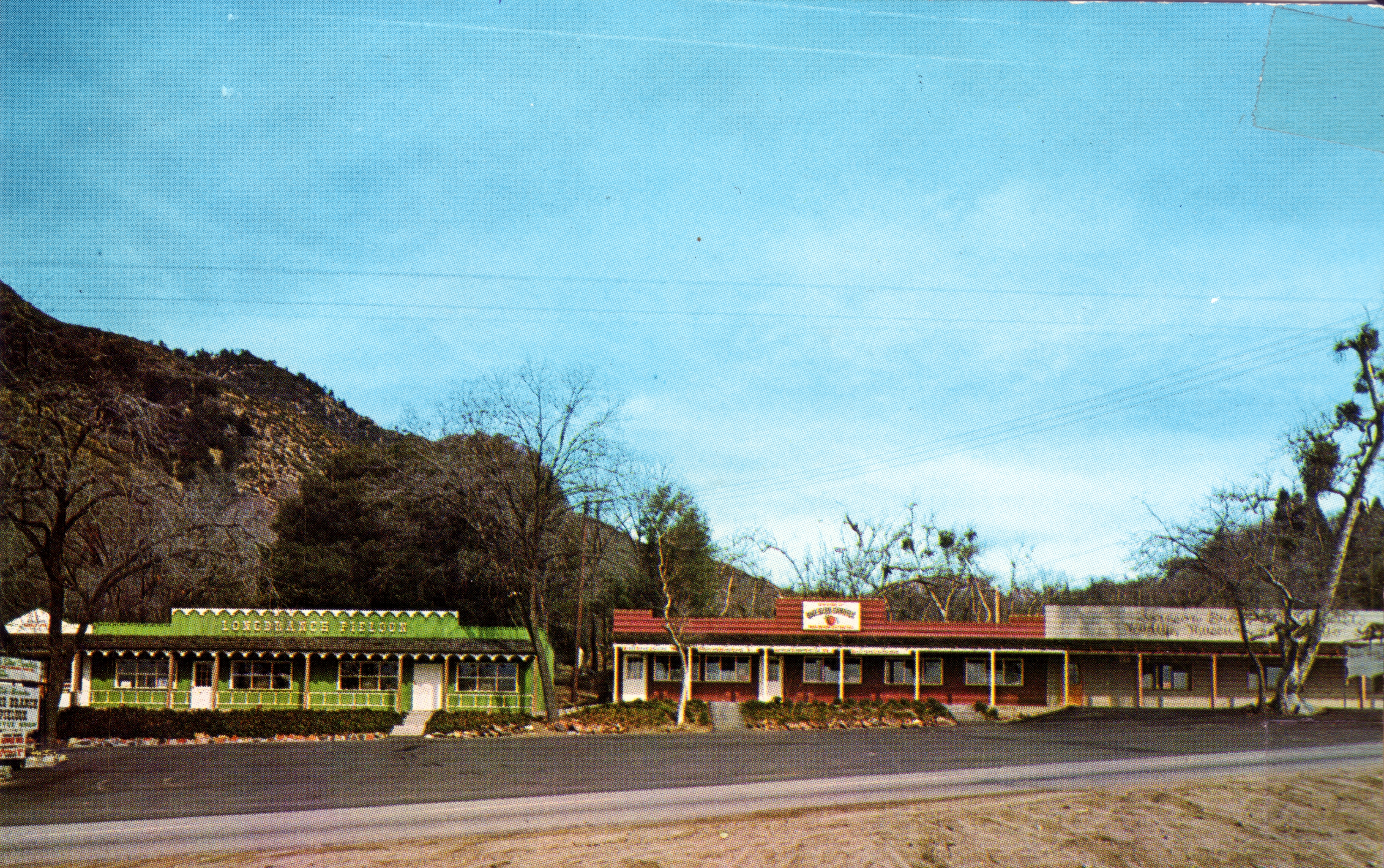 Color photocrome postcard of rustic storefronts at the Oak Tree Village in Oak Glen, California. The back of the postcard reads: Welcome To OAK GLEN APPLE LAND Oak Glen, Yucaipa, California Located in the heart of mile high apple country, where the family can enjoy rustic dining, view candy making and visit the wildlife museum. Each business is built as a family enterprise. Published & Distributed by Columbia H-5361 Columbia Wholesale Supply, 11401 Chandler, North Hollywood, Calif. 65962